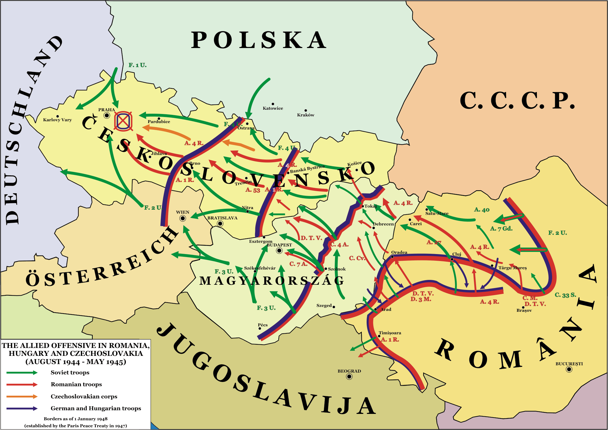 THE ALLIED OFFENSIVE IN ROMANIA, HUNGARY AND CZECHOSLOVAKIA (AUGUST 1944 - MAY 1945). Borders of 1948 (after the 1947 Treaty of Paris), before the creation of GDR and FRG.